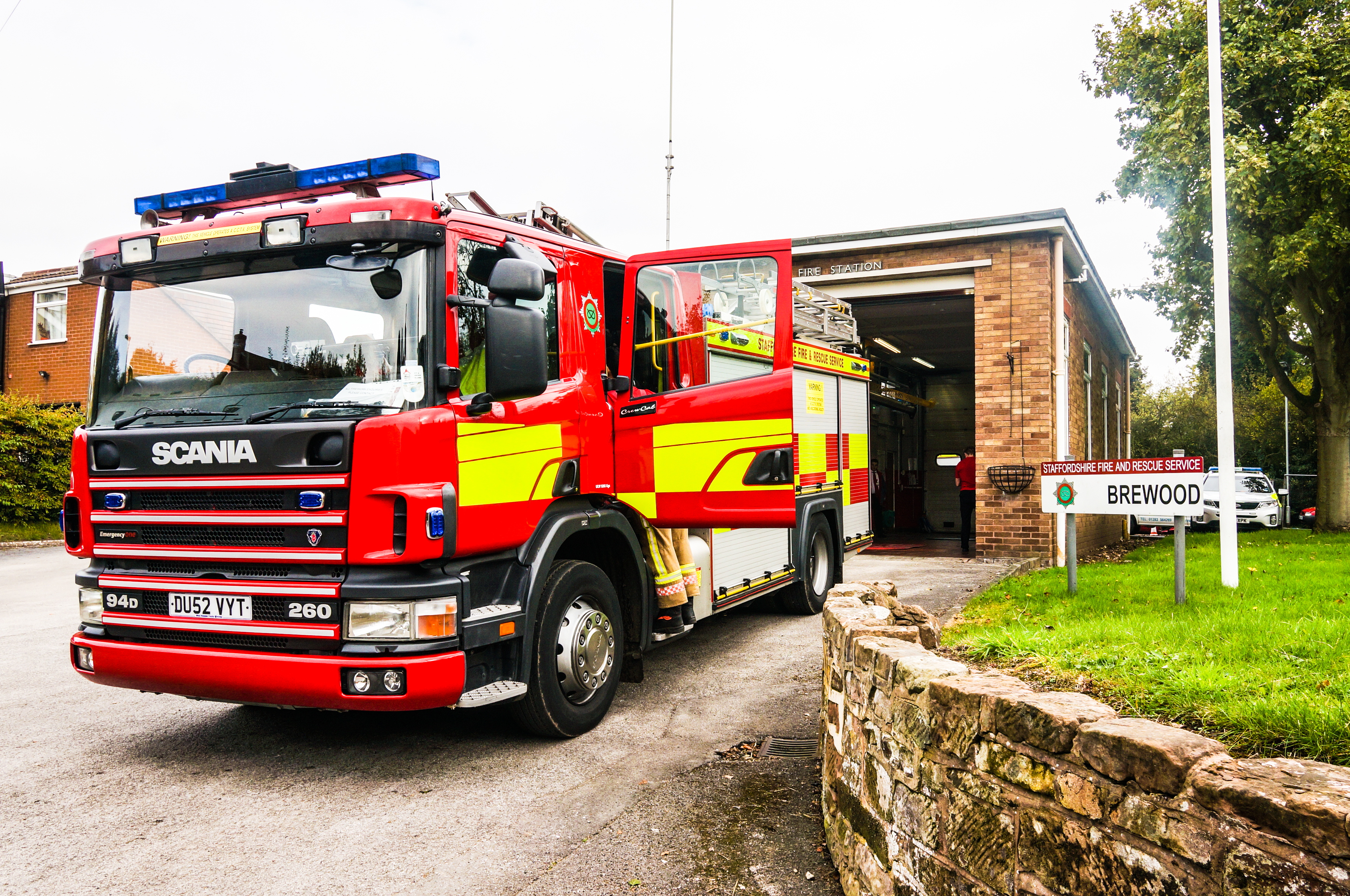 Scania P94D appliance DU52VYT outside Brewood Fire Station in Staffordshire